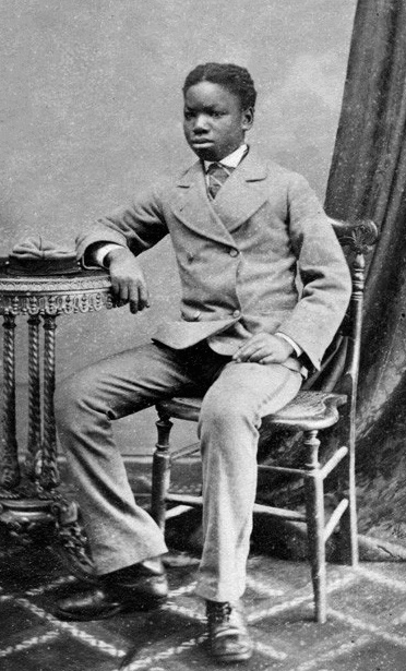 Kalulu (Ndugu M'hali) by H. Morris albumen carte-de-visite, 1870s